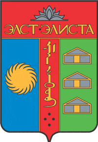 Elista (Kalmykia), coat of arms